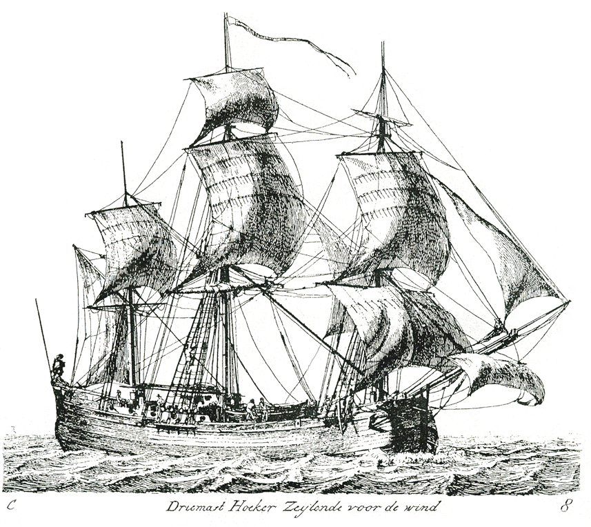 Three-masted hoeker sailing before the wind